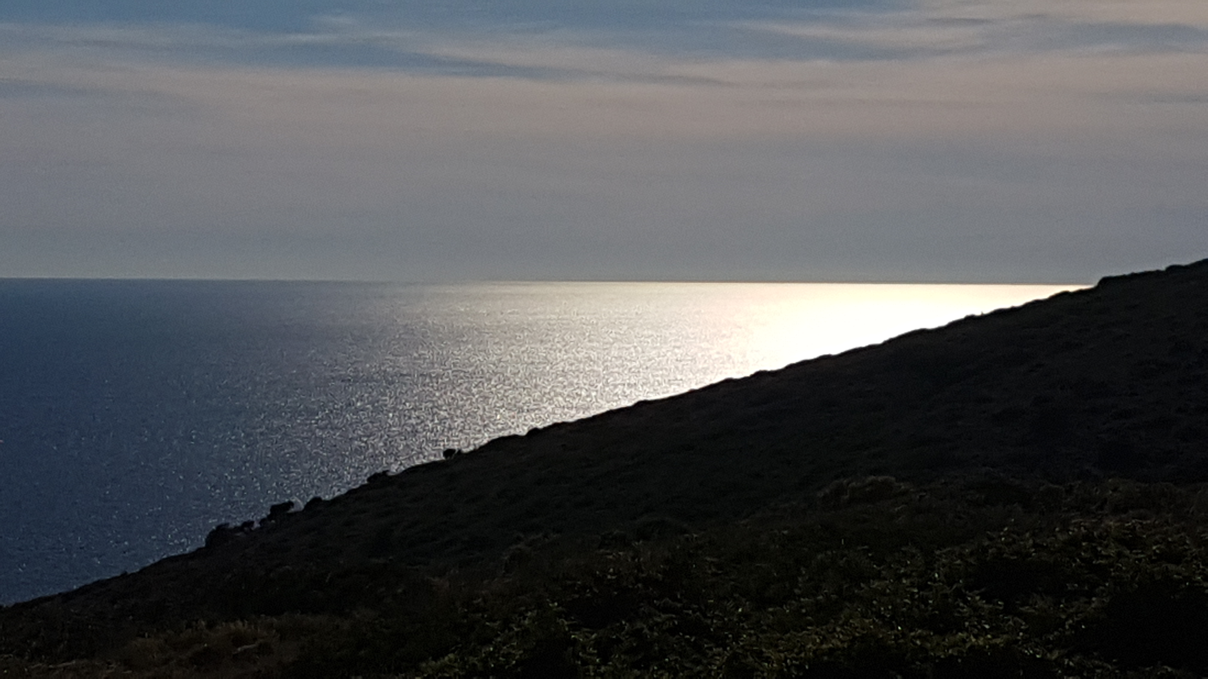 Island of dugi otok